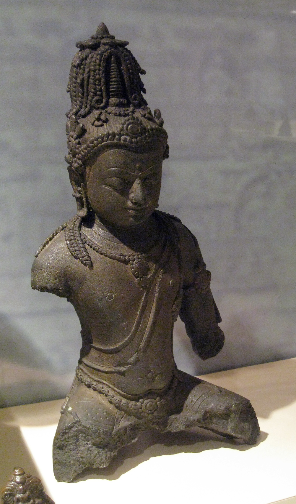 The bronze Buddhist statue of Boddhisattva Maitreya with typical attribute a stupa adorned his crown. Discovered in Komering, Palembang, South Sumatra, Indonesia. Srivijayan art c. 9th-10th century. Collection of National Museum of Indonesia, Jakarta, Inv. 6025.